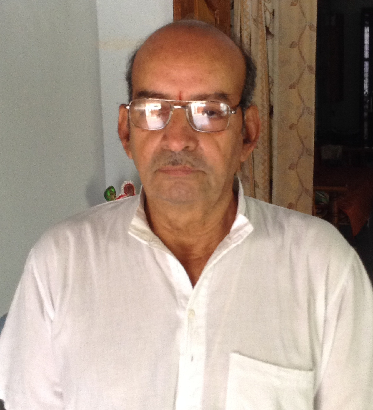 తంగిరాల పాల గోపాలకృష్ణ